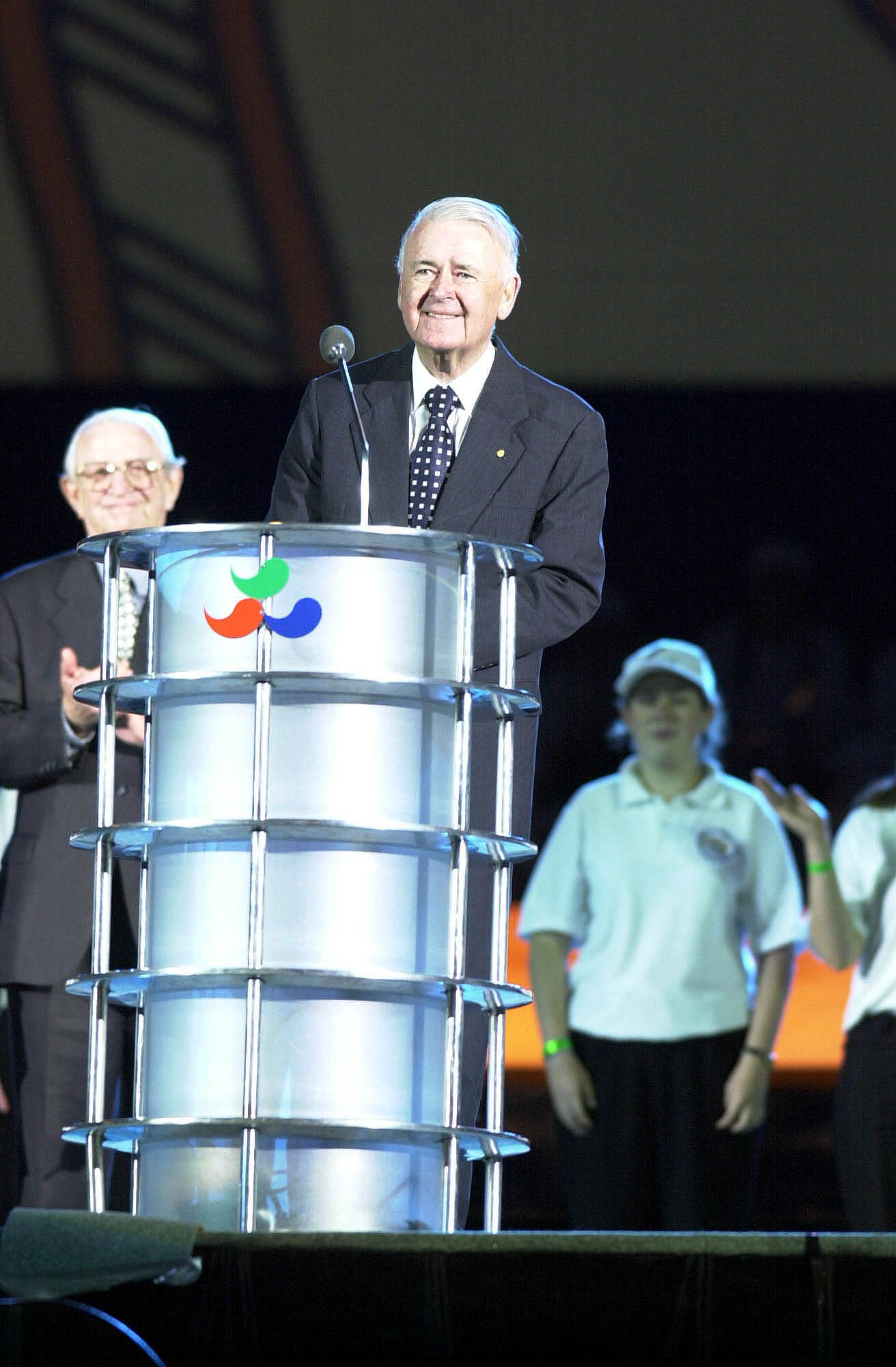 Australian Governor-General Sir William Deane makes the official opening speech at the 2000 Sydney Paralympic Games Opening Ceremony